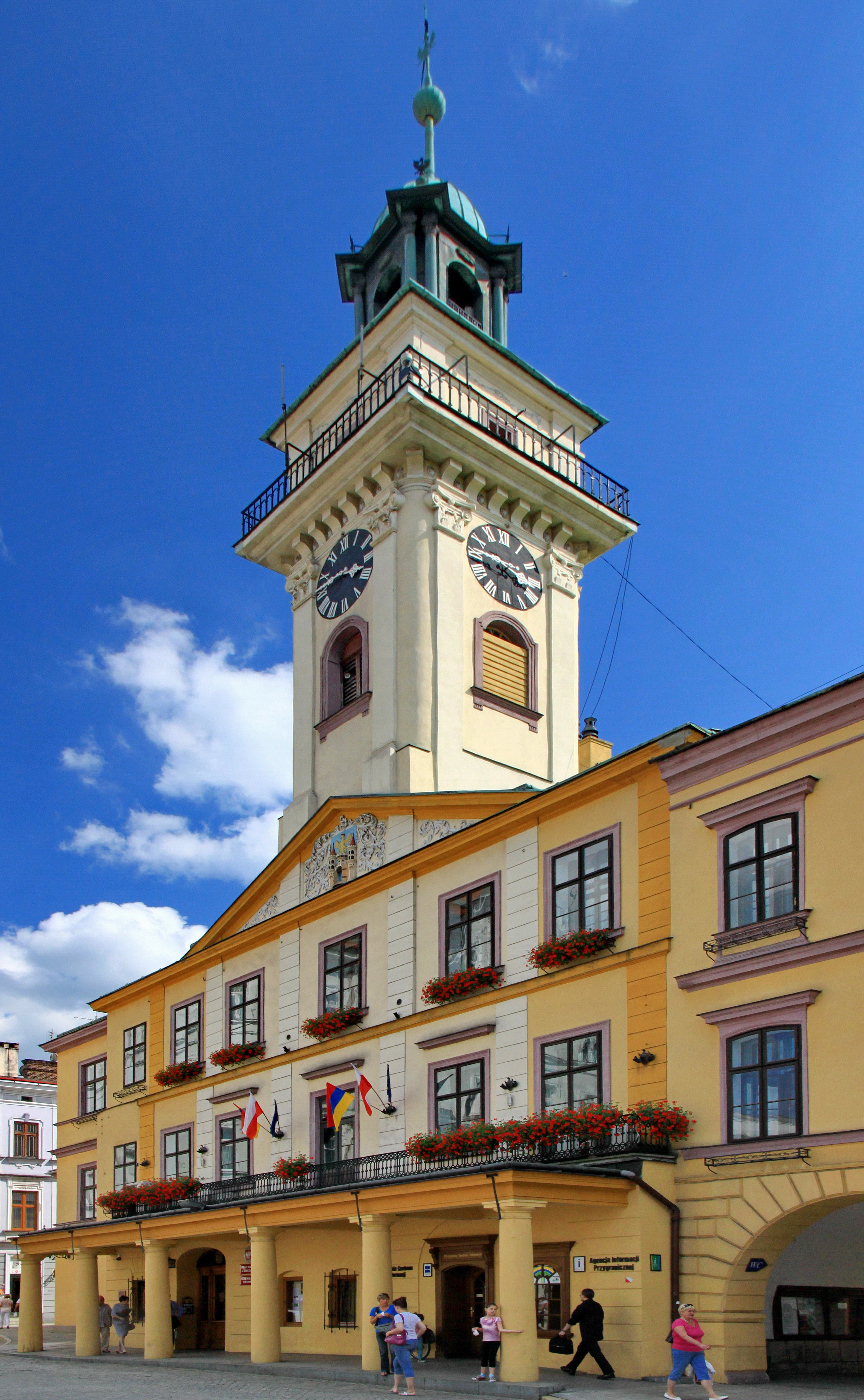 Cieszyn, town hall, build in 1496, 1661, 1670, 1720, 1800, 1846